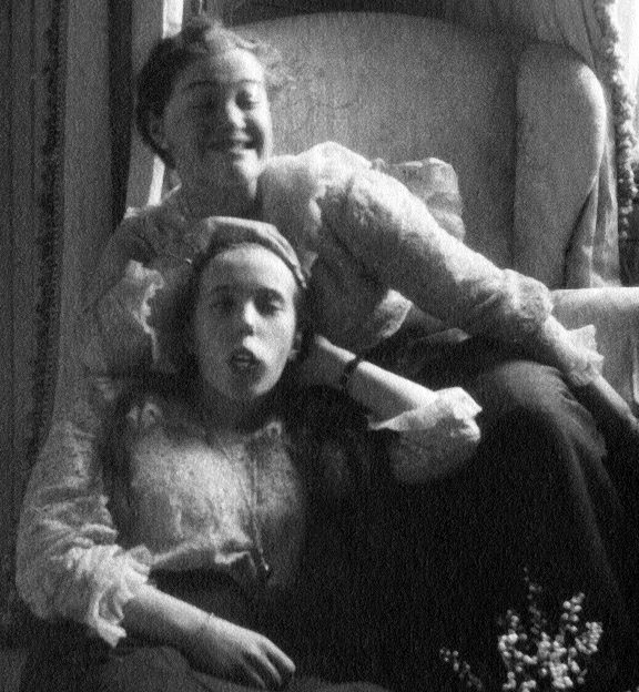 This photograph of Grand Duchesses Maria and Anastasia Nikolaevna of Russia mugging for the camera in 1915 or 1916 is from . Because of its age, I think it's likely in the public domain. If I'm mistaken, please delete the photo immediately.